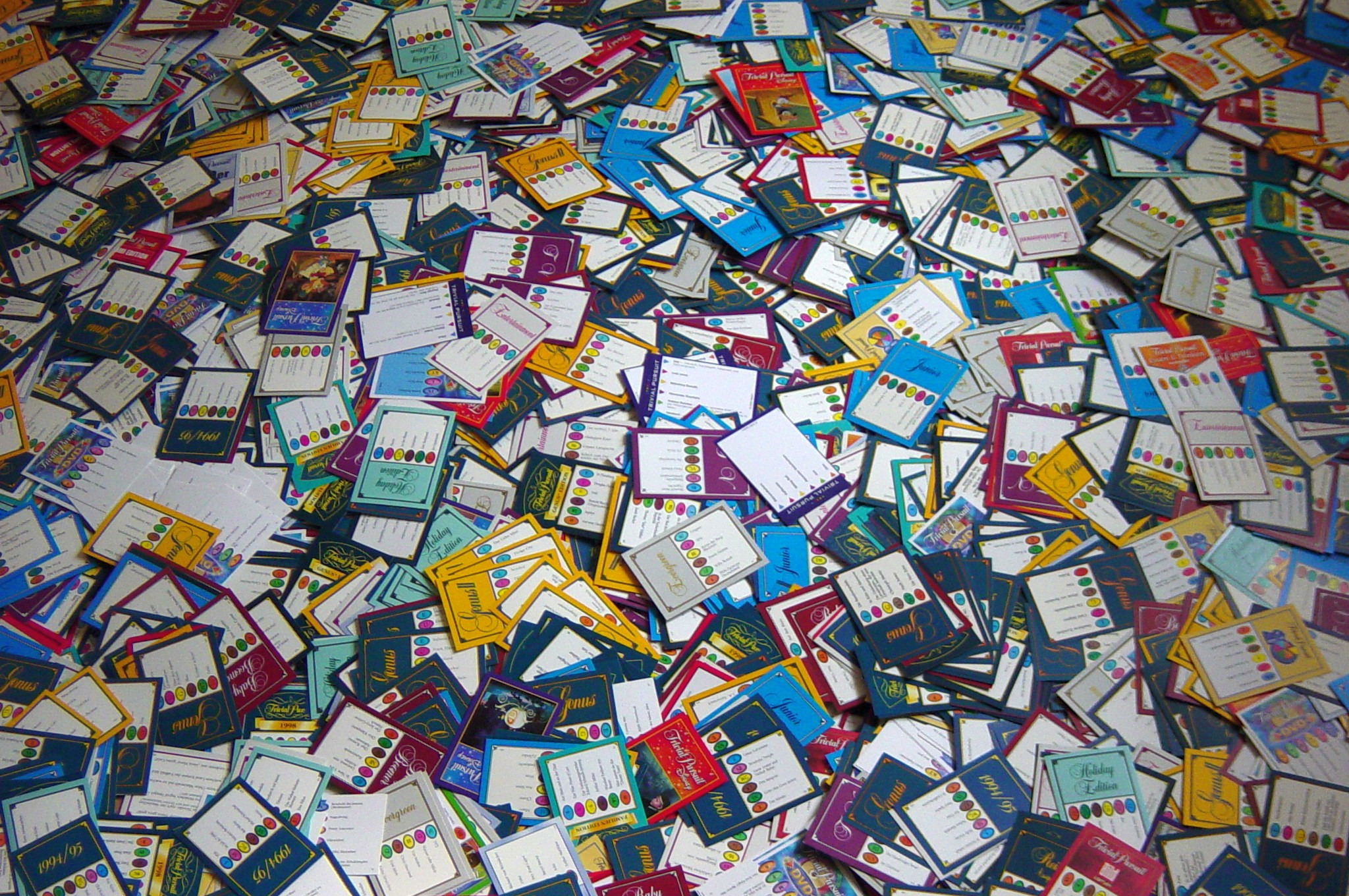 Trivial Pursuit Cards